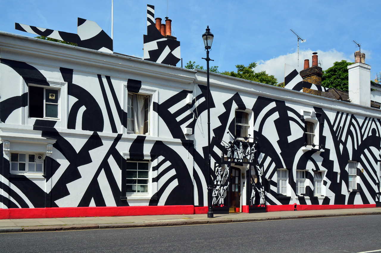 143 Old Church Street painted in dazzle style, which was first used on ships in WW1. The idea was to confuse the enemy about the vessel's size and direction. Royal Borough of Kensington & Chelsea. (CC-by-SA - anyone can freely use this size file anywhere, provided accompanied by the credit: Photo by George Rex.)